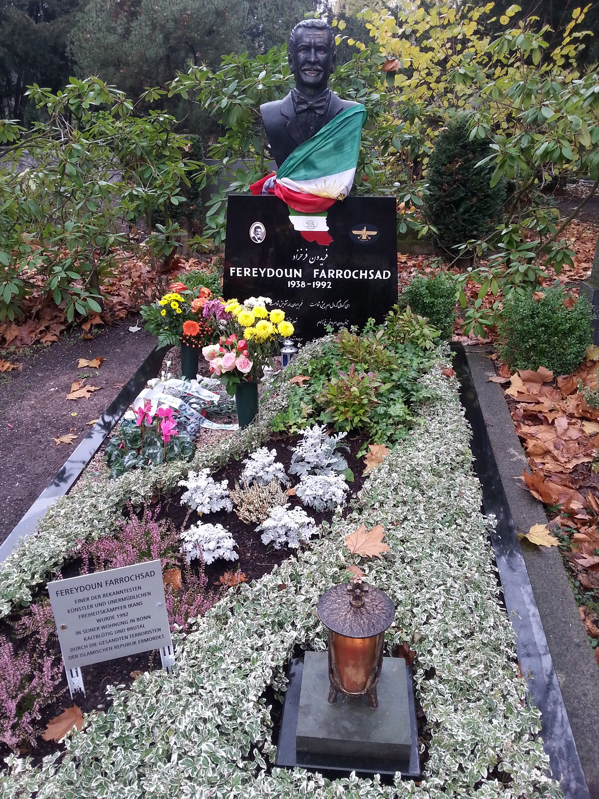 grave of Fereydoun Farrokhzad